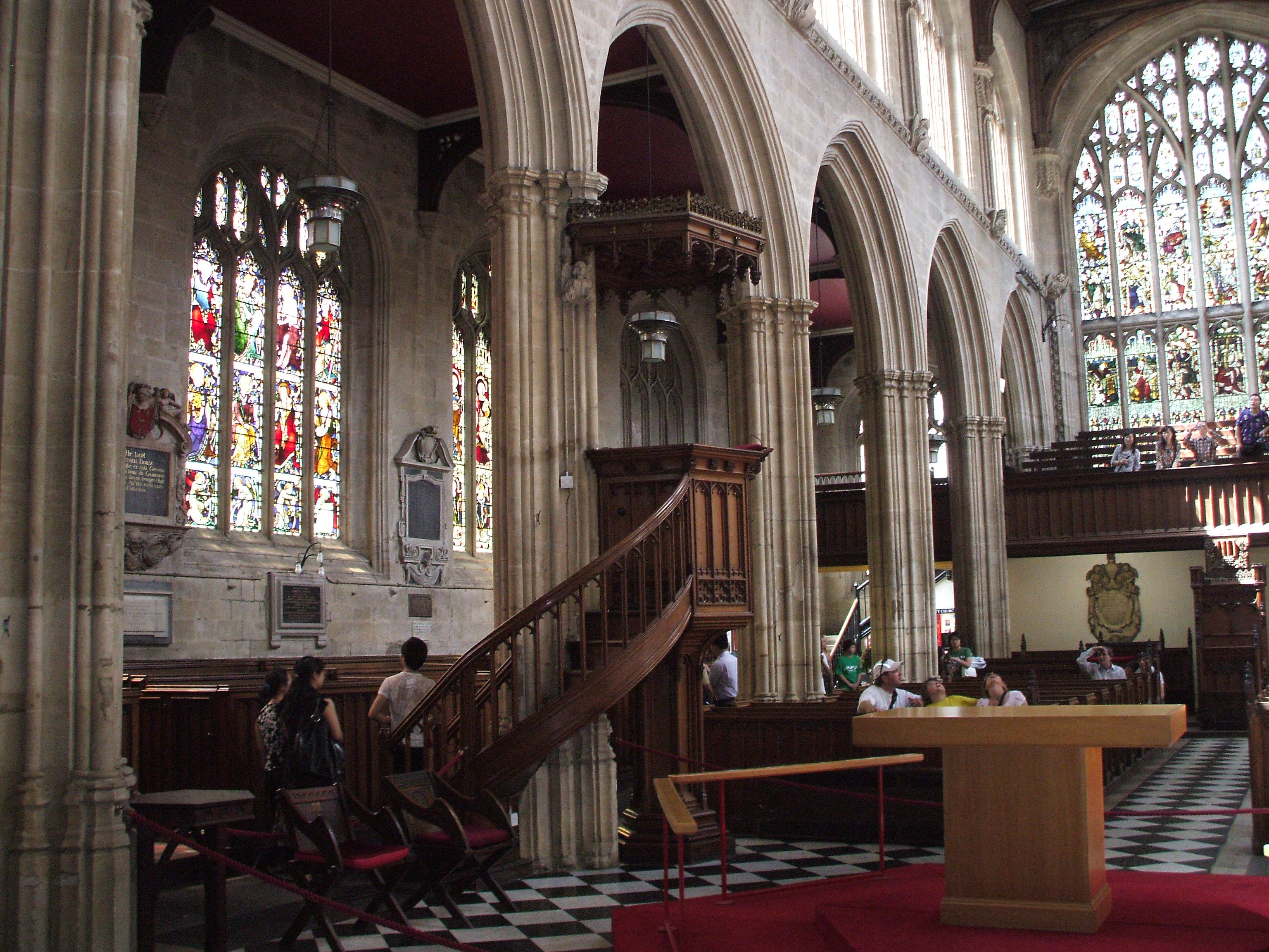 Pulpit of the University Church of St Mary the Virgin, Oxford